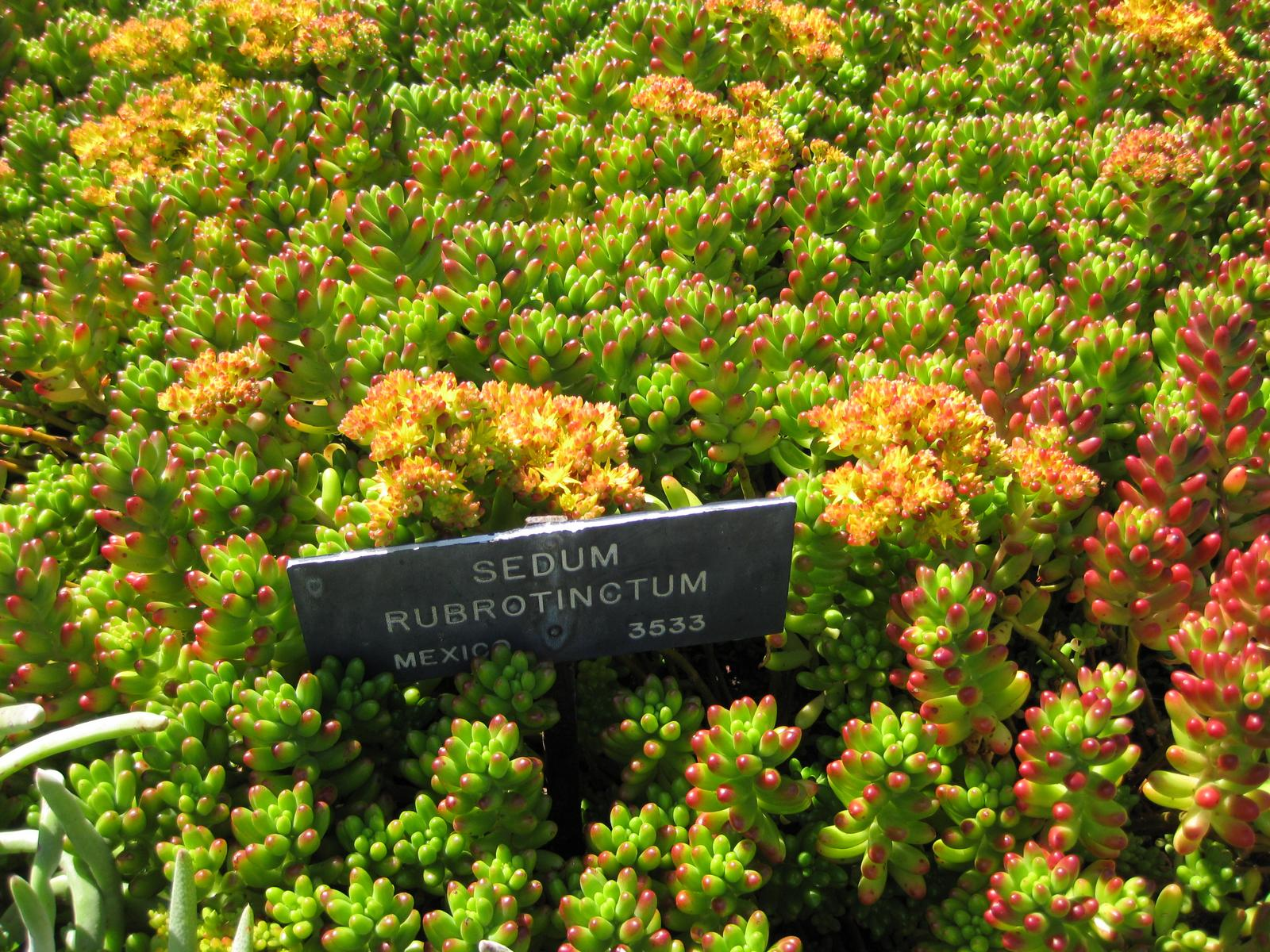 Photographed at Huntington Gardens (Los Angeles, California) in March